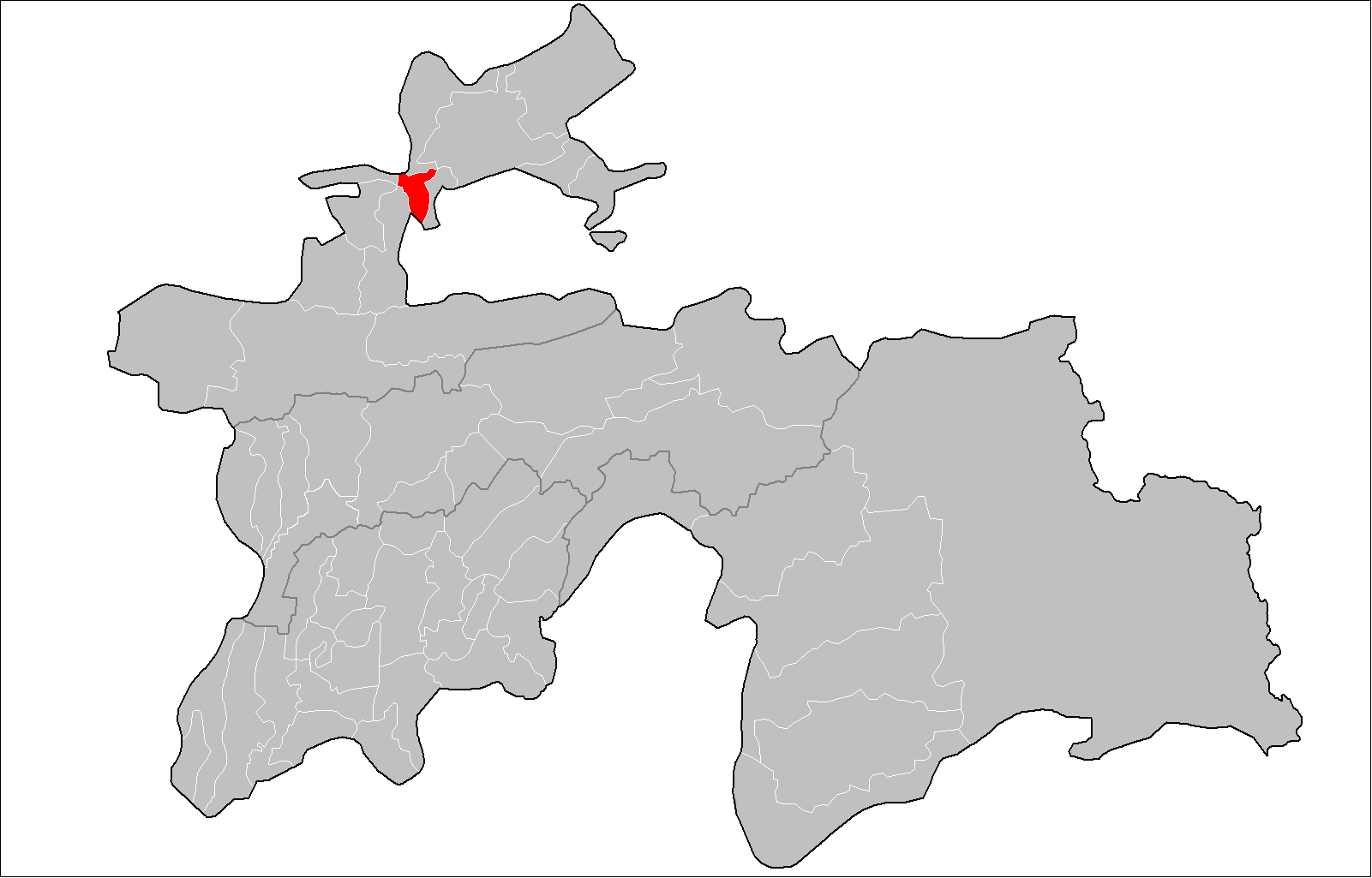 Location of Spitamen District in Tajikistan